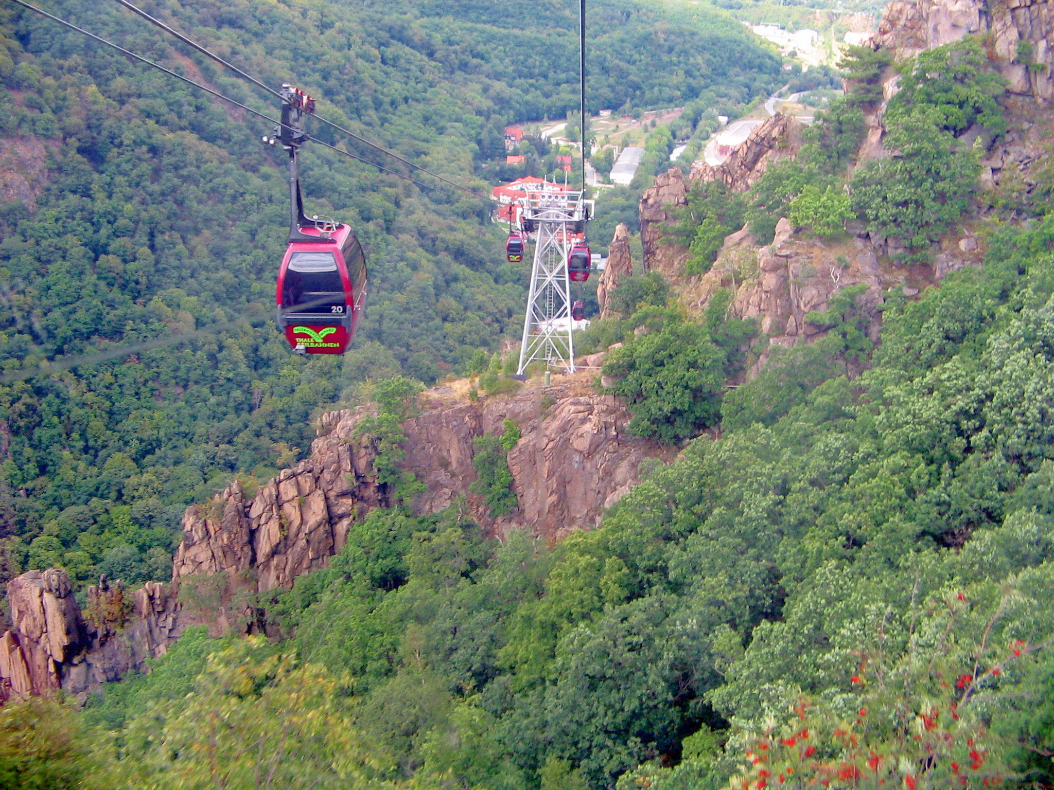 The Bode Valley Gondola Lift (Bodetal- Seilbahn) in Germany